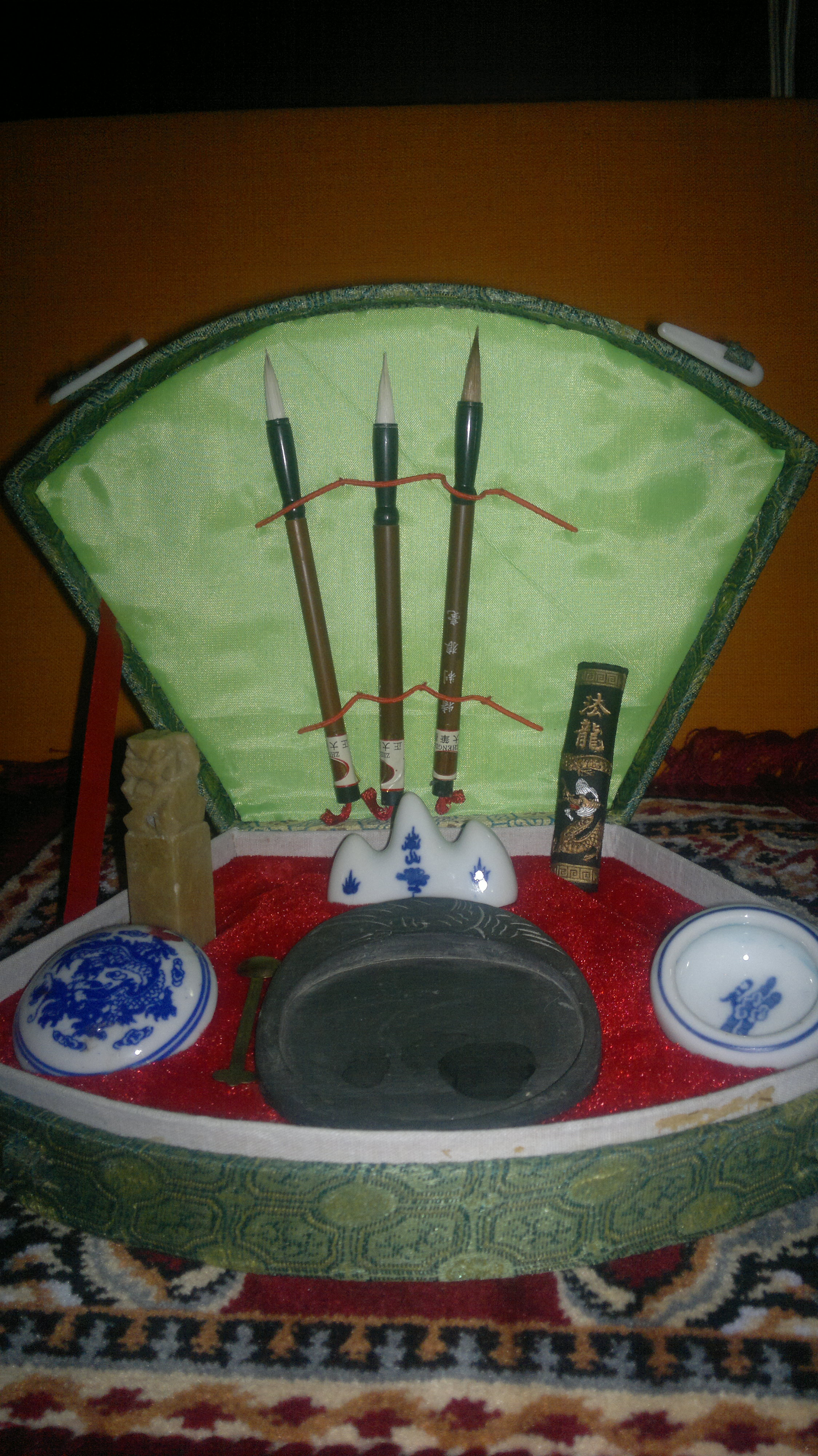 a set of brushes, an ink-stone, an ink-stick, a seal, a porcelain cup and some red dye-stuff. It was gifted to me by a relative who had been to China. The brishes are made of bamboo. The ink-stick has a rampant dragon embossed on it.